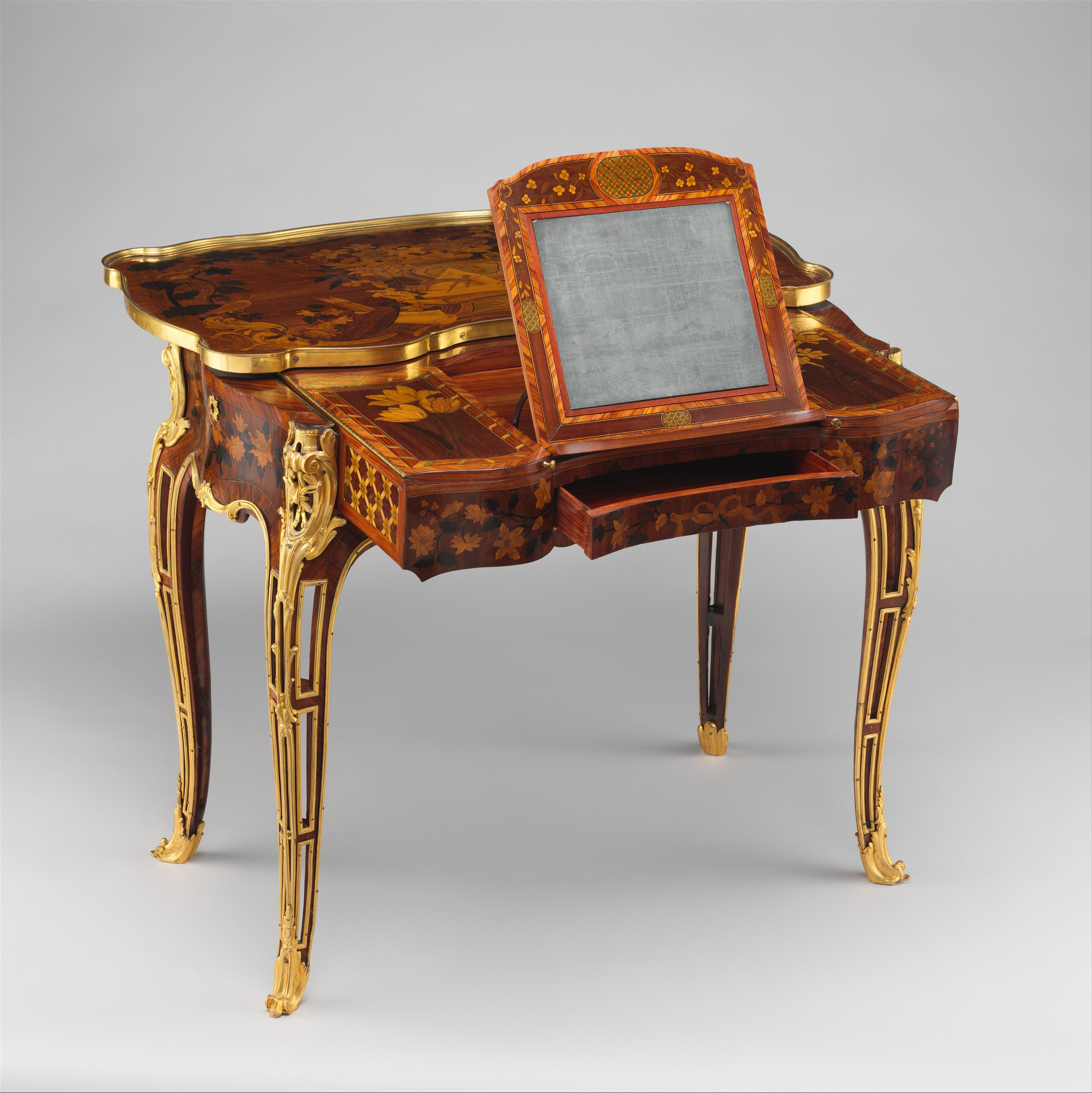 French; Mechanical table; Woodwork-Furniture